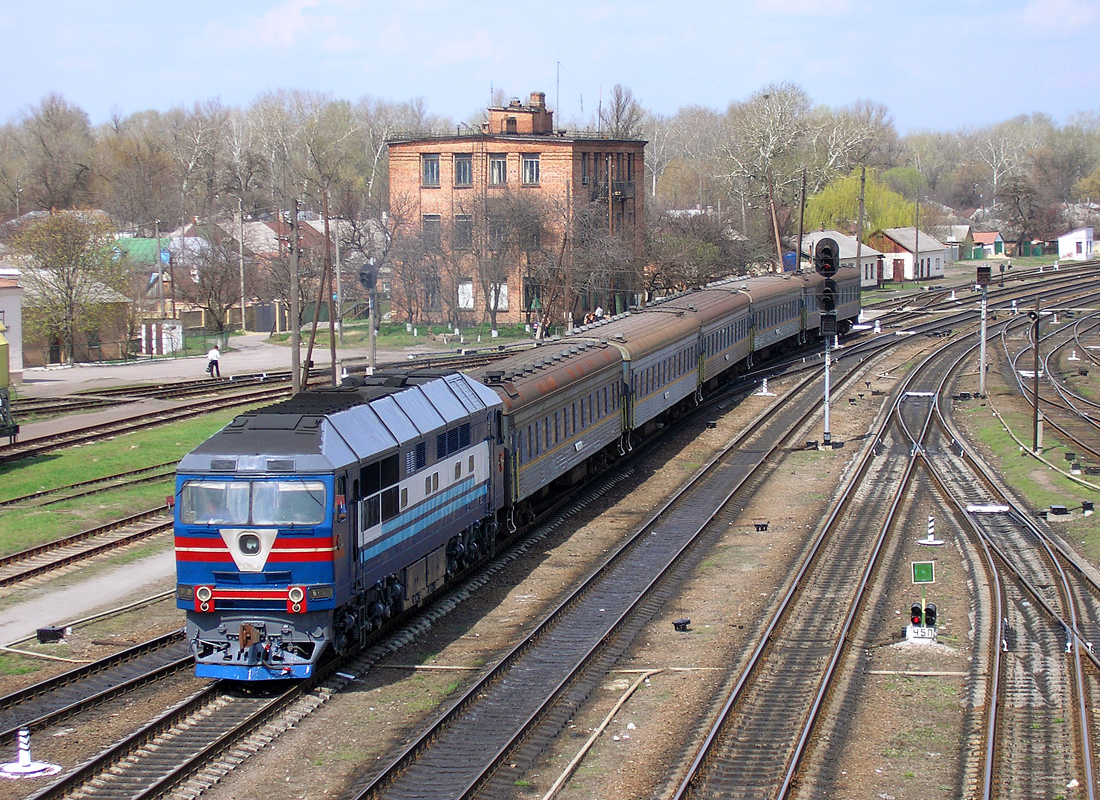 Diesel locomotive TEP70-0094 with passenger train Kharkov - Poltava, Poltava South station, 2006